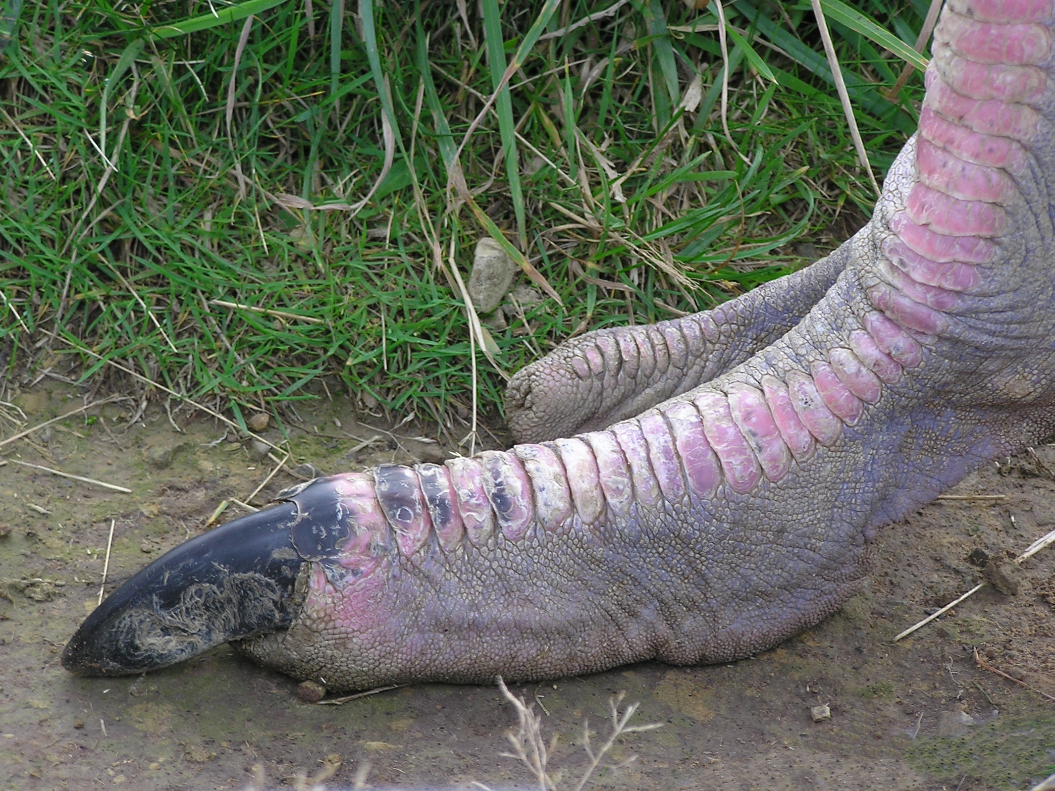 Ostrich foot (farmed ostrich). Wellington, New Zealand.